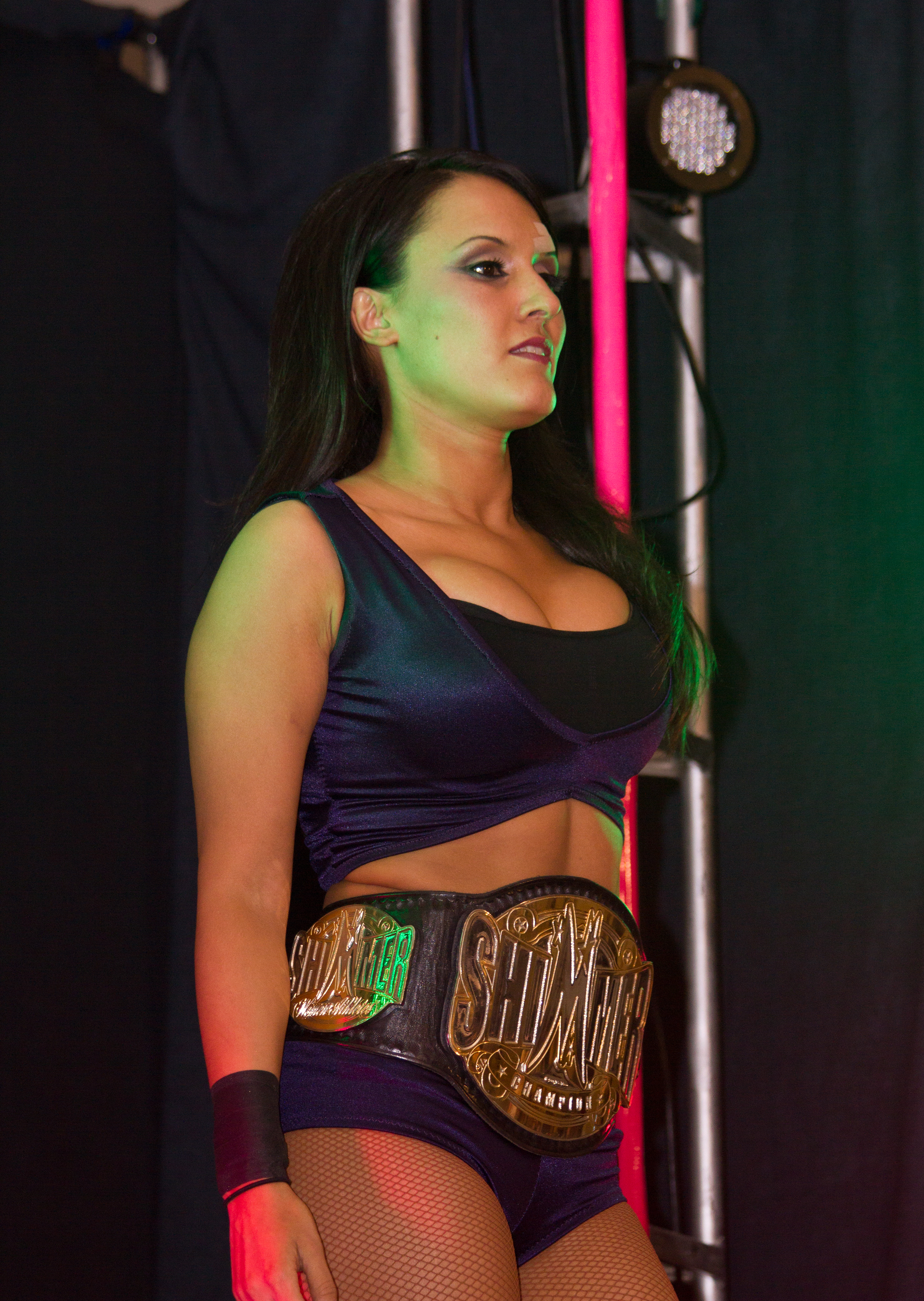 Cheerleader Melissa (real name Melissa Anderson) making her ring entrance at a NCW Femme Fatales show in Montreal. Around her waist can be seen the Shimmer Championship